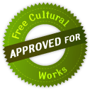 Approved for Free Cultural Works